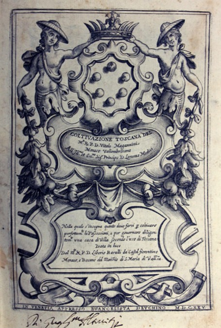 Coltiuazione toscana. Del molto reuer. p.d. Vitale Magazzini monaco valombrosano.